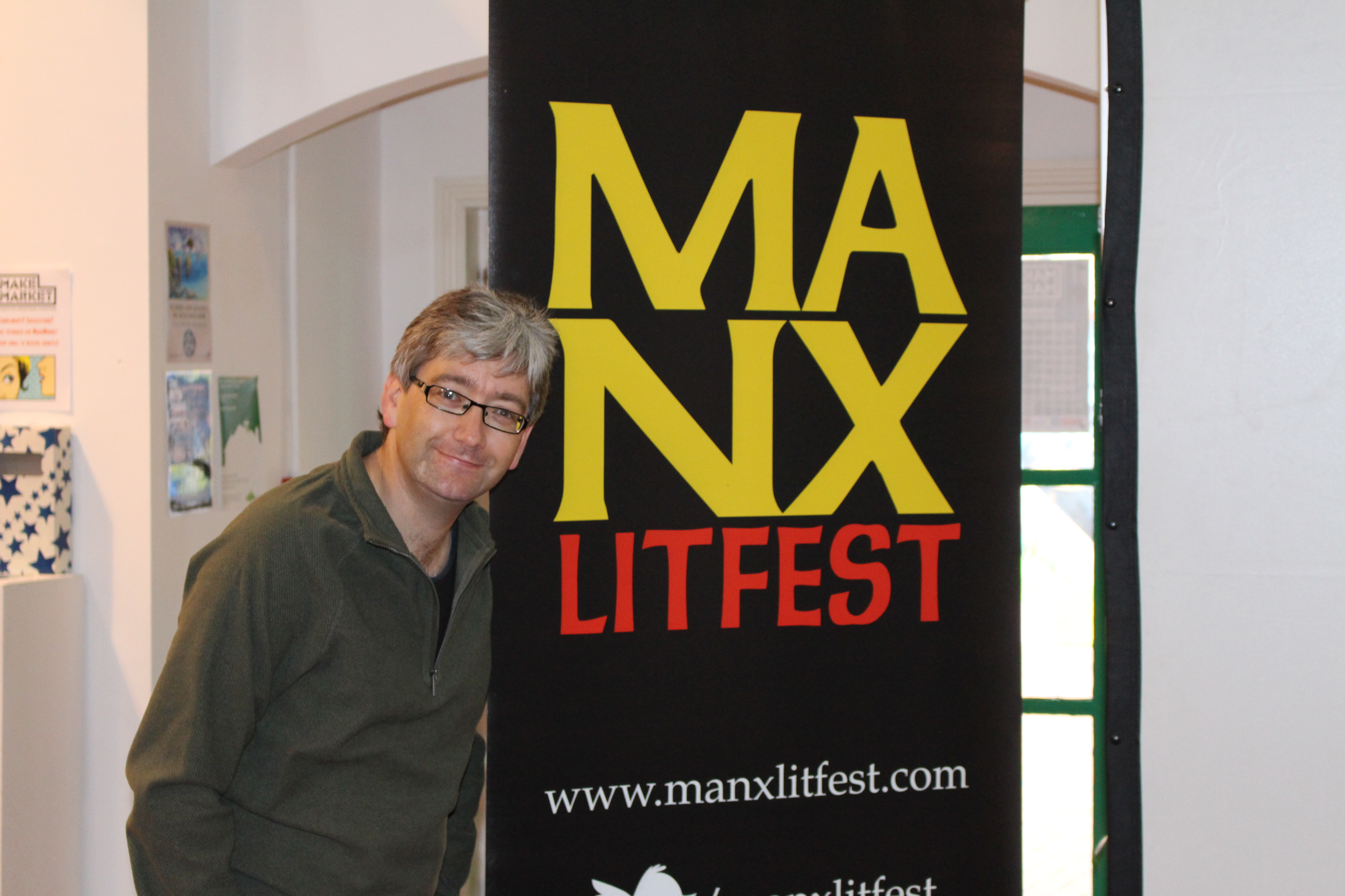 Andrew White at the Isle of Man Literary Festival 2016.